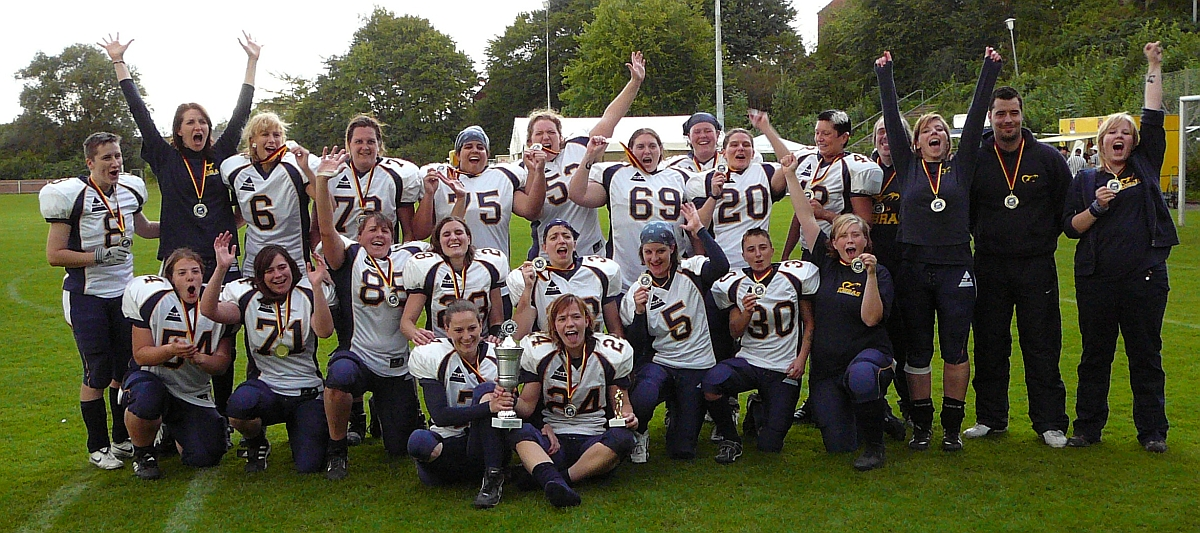 Photo of the winners of the XVII. Ladies Bowl at Flensburg, the Berlin Kobra Ladies